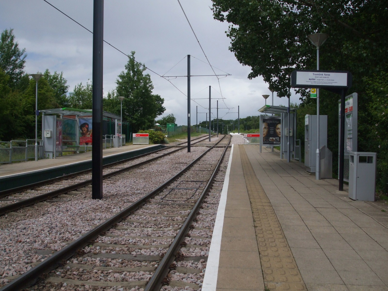 Harrington Road tram stop looking north. Beyond the brow of the hill is a single track section and sharp turn to the right as the tram route follows the main line alignment towards Birkbeck and beyond.